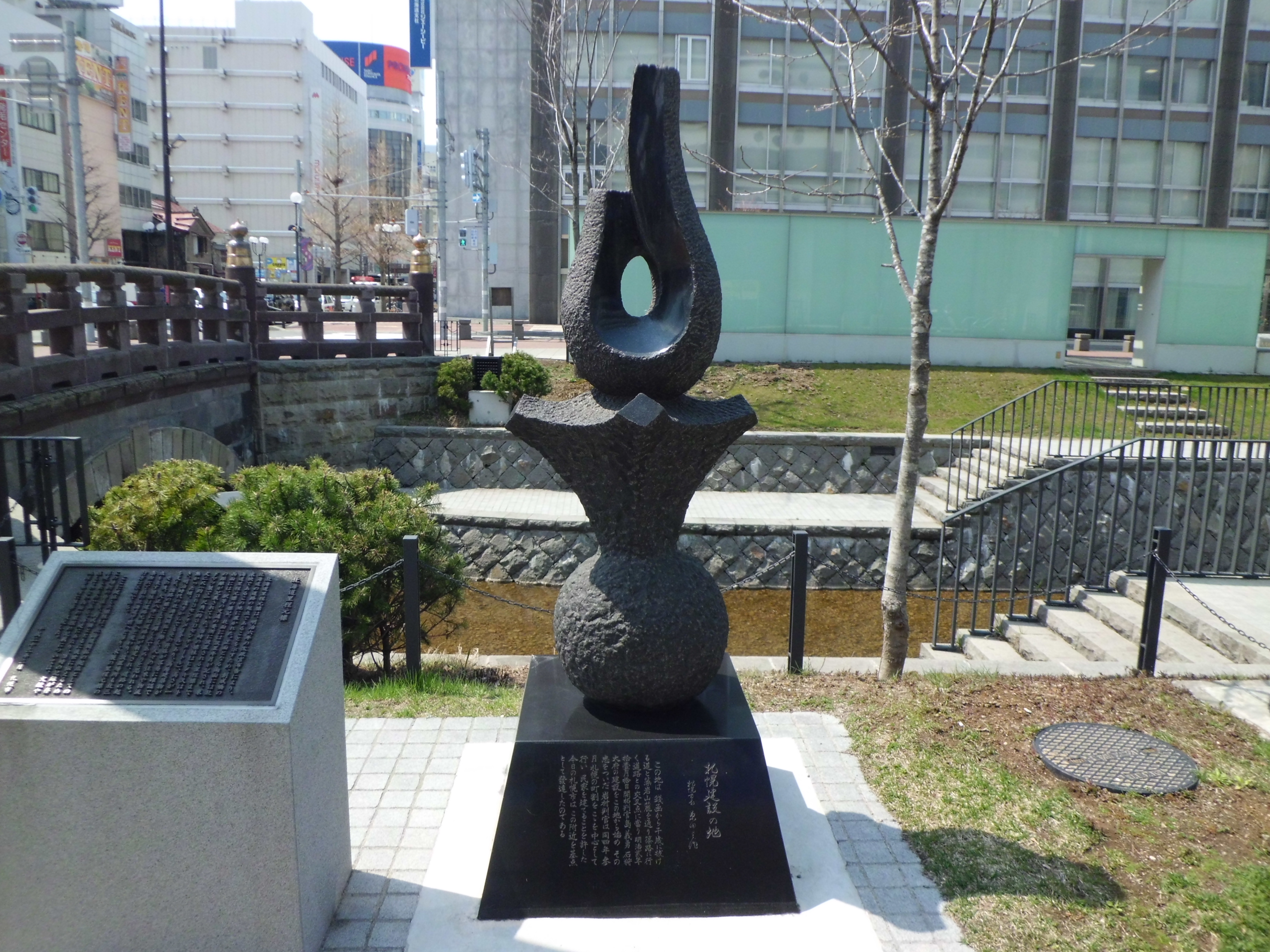 Monument to the foundation of Sapporo